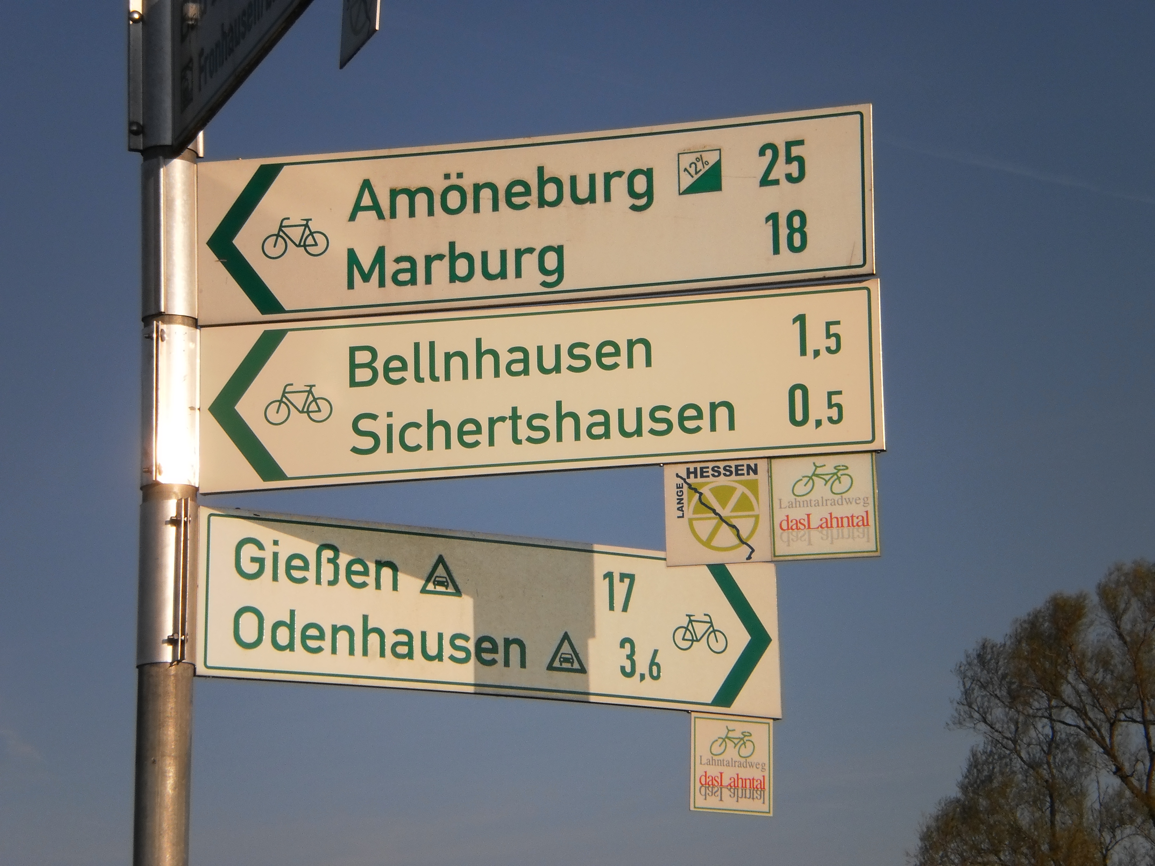 Dieser Wegweiser für die Touristenstrecken "Lange Hessen" und Lahntal-Radweg steht fast direkt an der "Alten Lahnbrücke" in Sichertshausen.